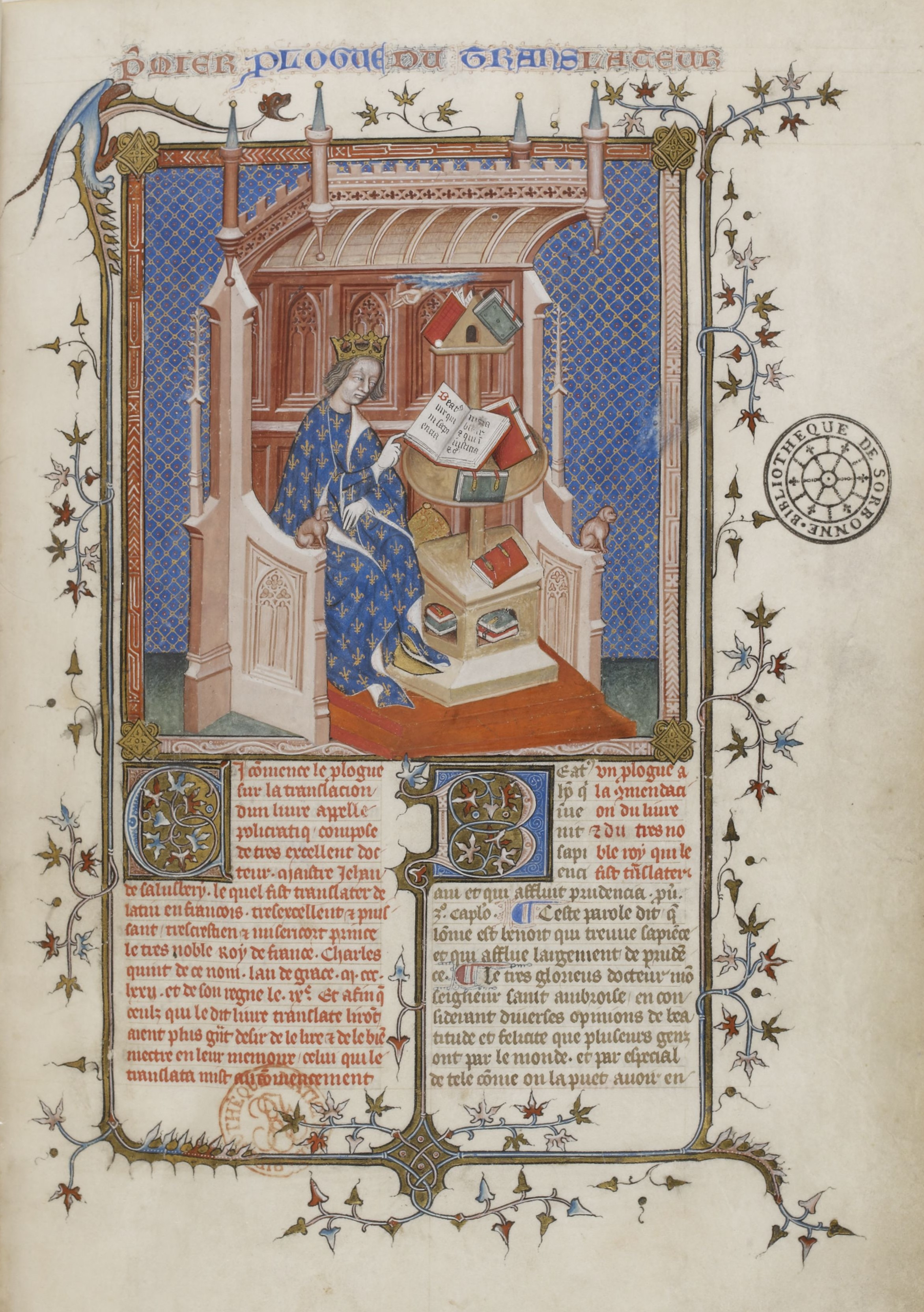 The beginning of the preface to Denis Foulechat’s French translation of John of Salisbury’s „Policraticus“ in the manuscript Paris, Bibliothèque nationale de France, Ms. français 24287, fol. 2r. The famous miniature shows King Charles V of France.